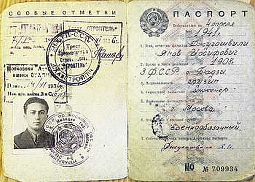 Passport of Yakov Dzhugashvili